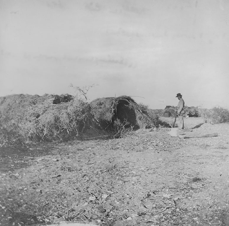 Photo of a group of abandoned Seri huts on Tiburon Island, Mexico. Photo taken during the MgGee Expedition in 1895. Cite as: BAE GN 4285, National Anthropological Archives, Smithsonian Institution Repository Loc: National Anthropological Archives, Smithsonian Museum Support Center, Suitland, Maryland Local Number: BAE GN 4285